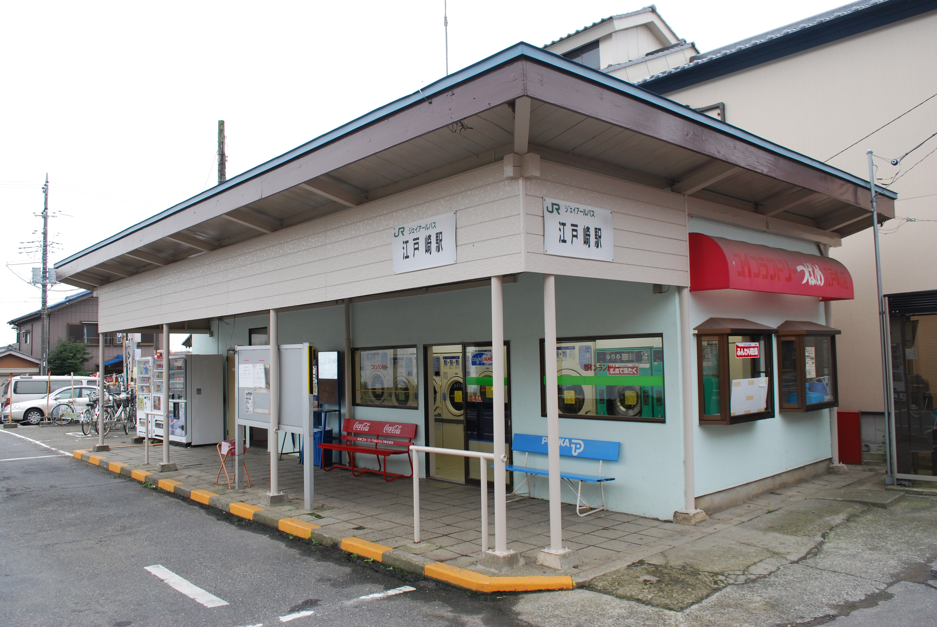 Edosaki sta.,JRbus-kanto,inashiki-city,japan